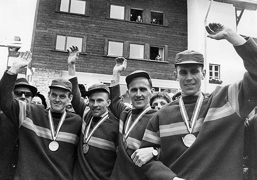 The Swedish team that won the men's cross-country skiing 4 x 10 km relay at the 1964 Winter Olympics in Innsbruck, Austria. From left to right: Assar Rönnlund, Janne Stefansson, Sixten Jernberg and Karl-Åke Asph.